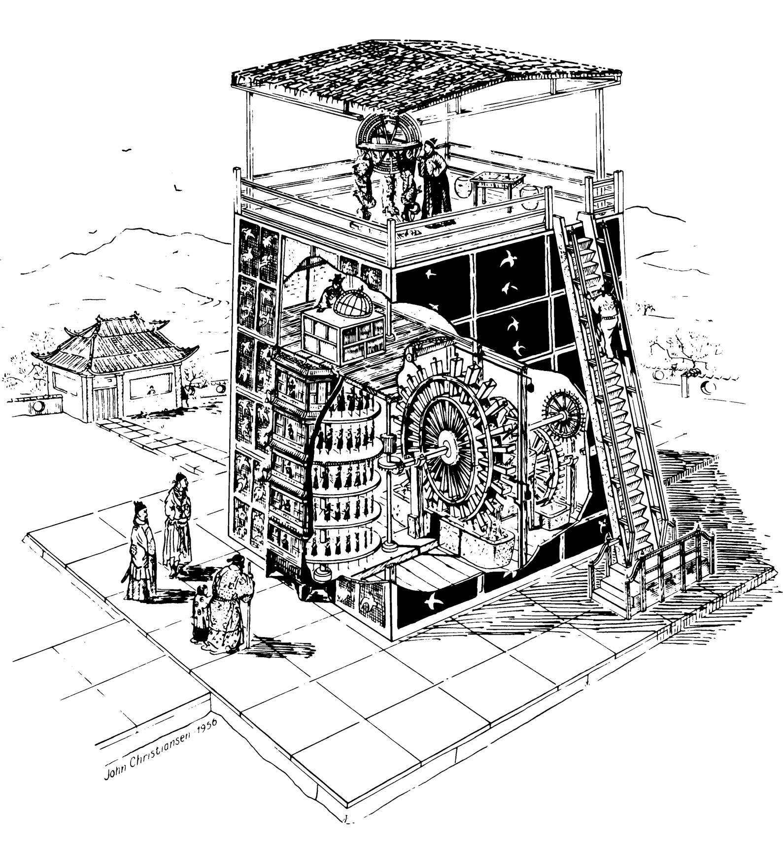 Title: Bulletin - United States National Museum Year: 1877 (1870s) Authors: United States National Museum; Smithsonian Institution; United States. Dept. of the Interior Subjects: Science Publisher: Washington : Smithsonian Institution Press, (etc. ); for sale by the Supt. of Docs. , U. S. Govt Print. Off. Text Appearing Before Image: ' Text Appearing After Image: European clocks should have protnplrd them to open their doors, previously so carefully and for so long kept closed against the foreign barbarians. Mechanized Astronomical Models Now that we have seen the manner in which mech- anized astronomical models developed in China, we can detect a similar line running from Hellenistic time, through India and Islam to the medieval Europe that inherited their learning. There are many diffcr- Figure 4.—Astronomical Clock Tower of .Su Sgun in K'ai-feng, ca. A. D. logo, from an original drawing by John Christiansen. (Courtesy of Cam- bridge University Press.) enccs, notably because of the especial development of that peculiar characteristic of the West, mathematical astronomy, conditioned by the almost accidental con- flux of Babylonian arithmetical methods with those of Greek geometry. However, the lines are surpris- ingly similar, with the exception only of the crucial in\ention of the escapement, a feature which seems to be replaced by the influx of ideas connected with per- petual motion wheels. 88 BULLETIN 218: CONTRIBUTIONS FROM THE MUSEUM OF HISTORY AND TECHNONOGY